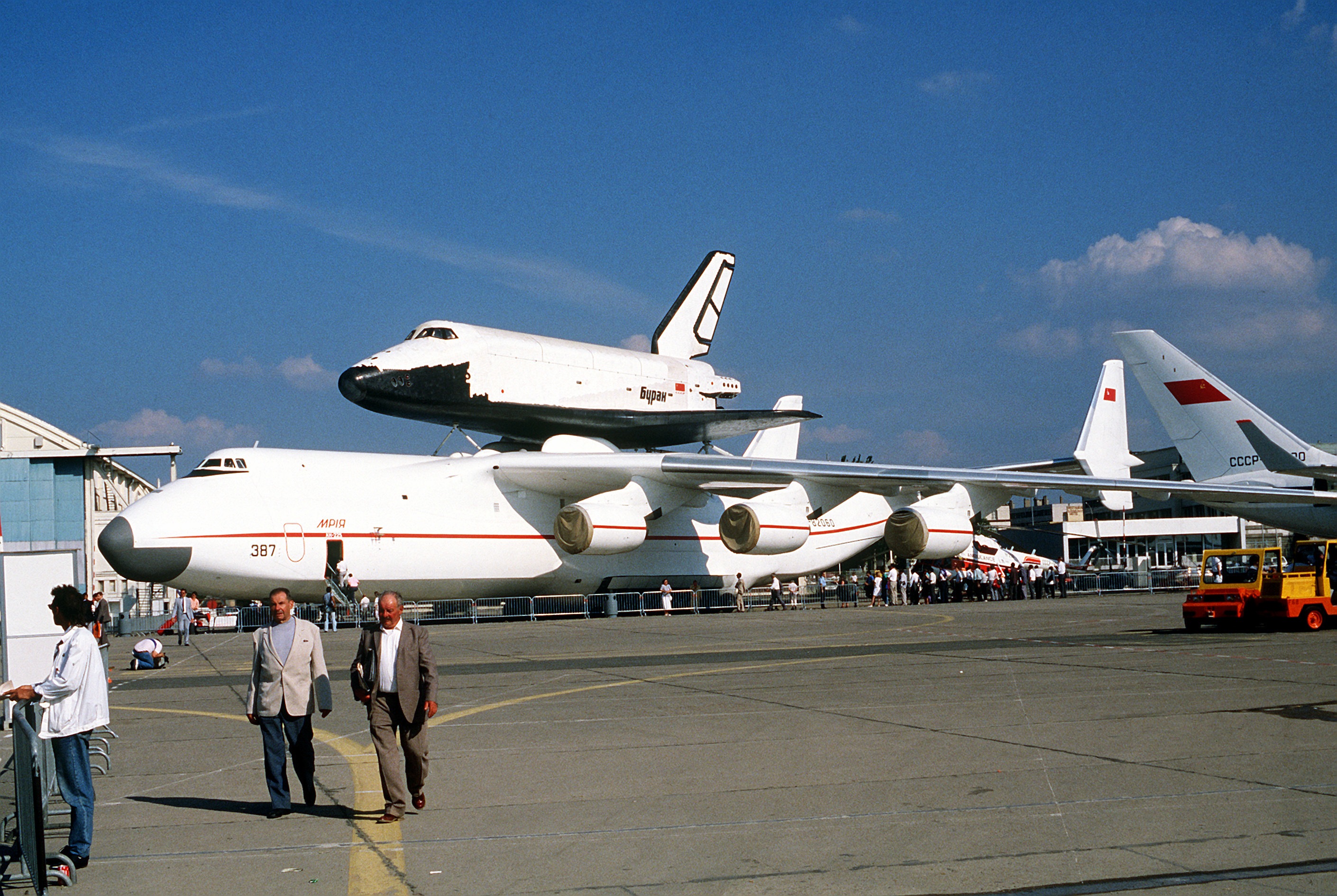 Visitors at the 38th Paris International Air and Space Show at Le Bourget Airfield line up to tour a Soviet An-225 Mechta aircraft that is carrying the Space Shuttle Buran on its back.